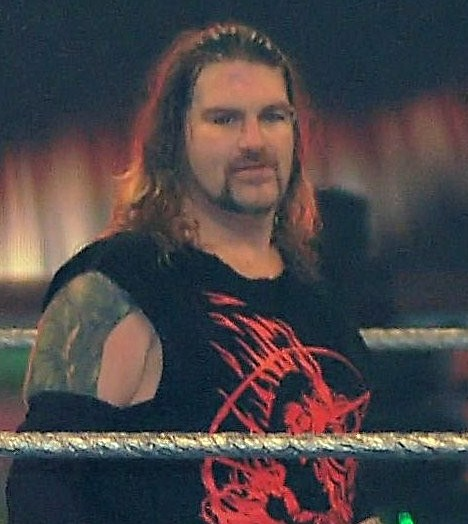 Balls Mahoney.